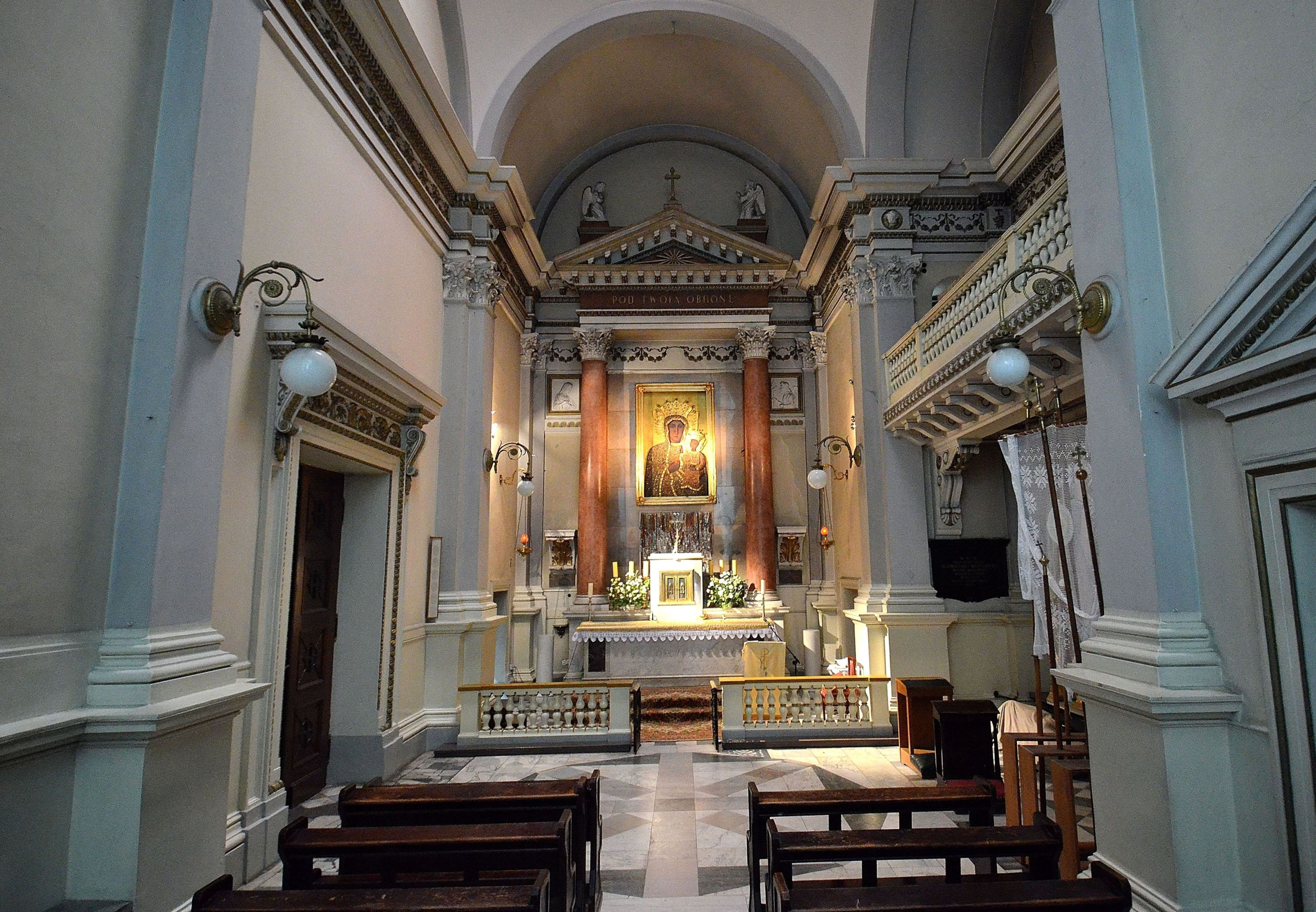 Black Madonna of Częstochowa chapel in the All Saints church in Warsaw (listed in the Register of Historic Monuments on 1.07.1965, reference no. 170)